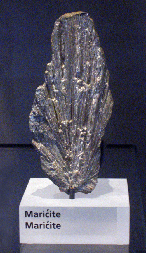 Marićite Locality: Big Fish River, Dawson Mining District, Yukon Territory, Canada Original description: ~10 cm. crystal spray, on display at the Royal Ontario Museum, Toronto, Canada.